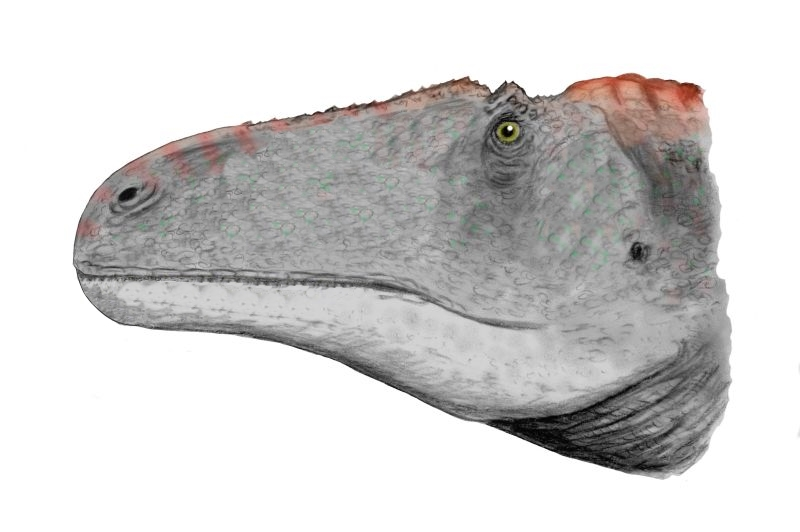 Head of Acrocanthosaurus atokensis, a theropod from the Early Cretaceous of North America, pencil drawing